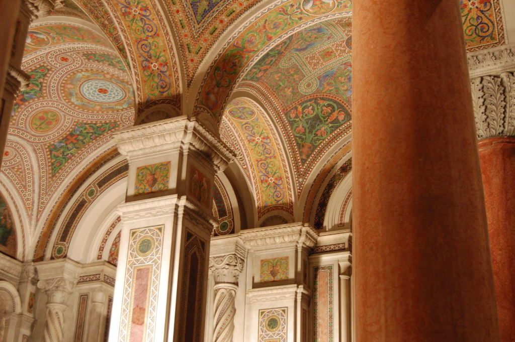 All Saints Chapel in the Cathedral Basilica of St. Louis by Louis Comfort Tiffany